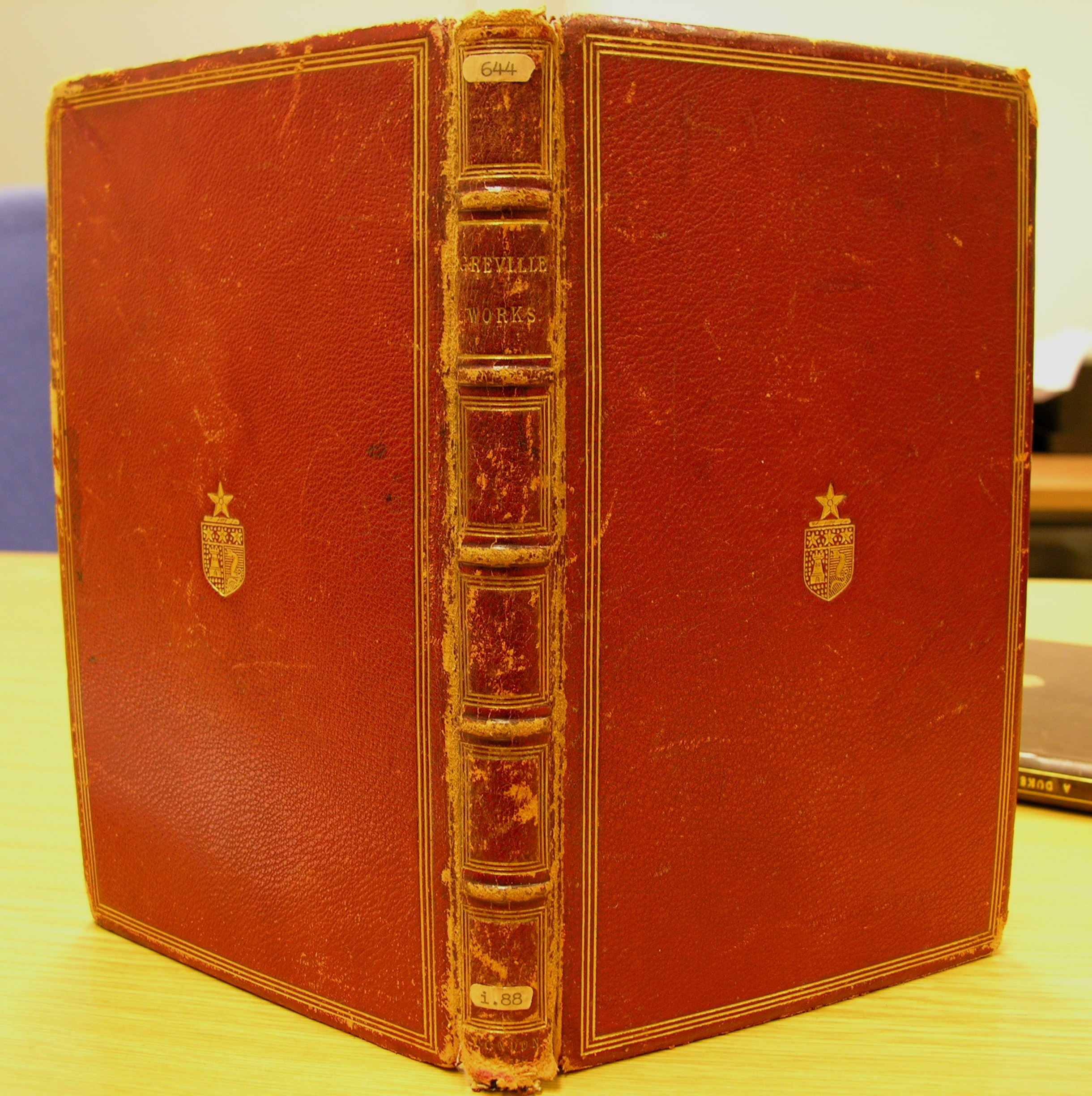 The binding of David Garrick's copy of Greville's Workes, part of the Garrick Collection at the British Library. Sir Anthony Panizzi, the British Museum's Keeper of Printed Books, suggested the rebinding of the Garrick Collection in 1840, and it was his idea to stamp the Garrick arms on the bindings.